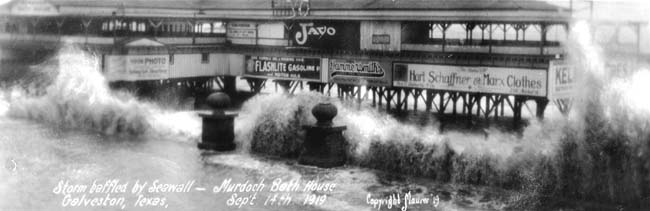 Galveston, Texas during the September Hurricane of 1919. "Storm baffled by Seawall - Murdoch Bath House"